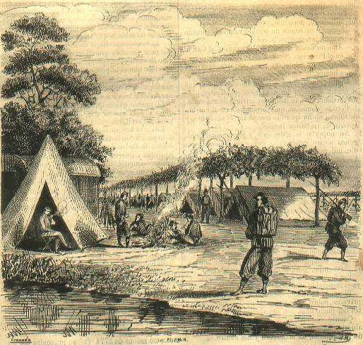 Argentine camp at Ensenada, Corrientes (Nicolás Granada, lithographed by Henry Meyer, Correo del Domingo, Buenos Aires, 25 February 1866).